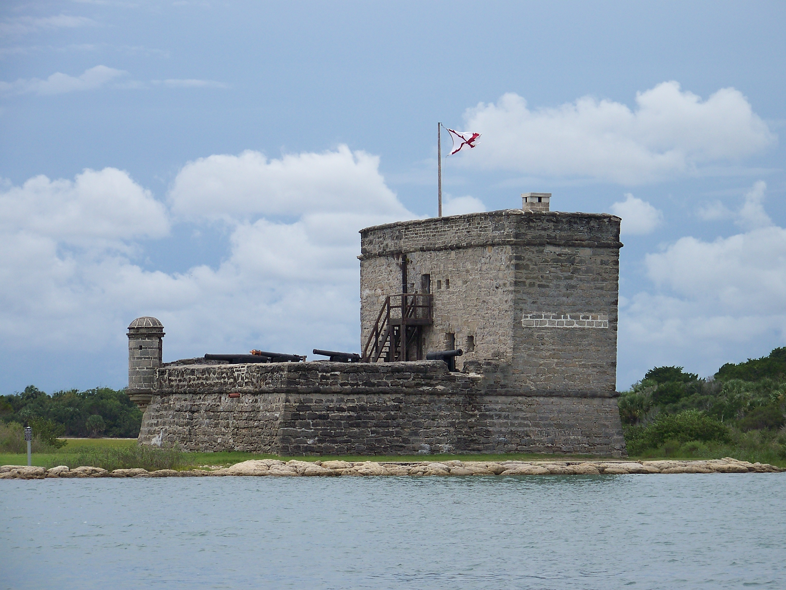 Fort Matanzas river view